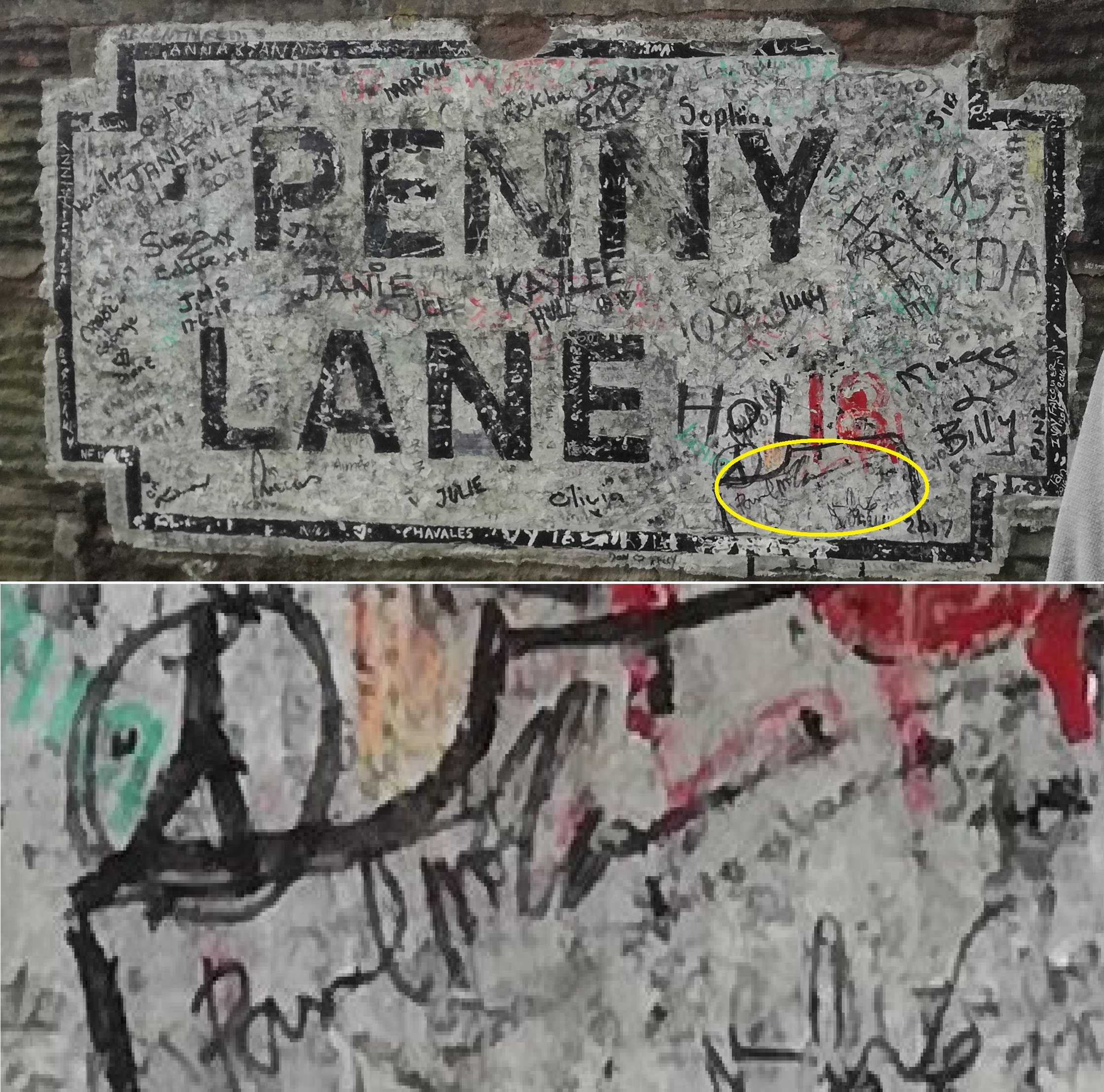 Penny Lane, Liverpool. Paul McCartney's signature in the Penny Lane Street Sign, can be seen at the lower right corner, just below the Peace sign. McCartney signed in the Penny Lane Street Sign, during Carpool Karaoke TV Show, June 2018. [1].